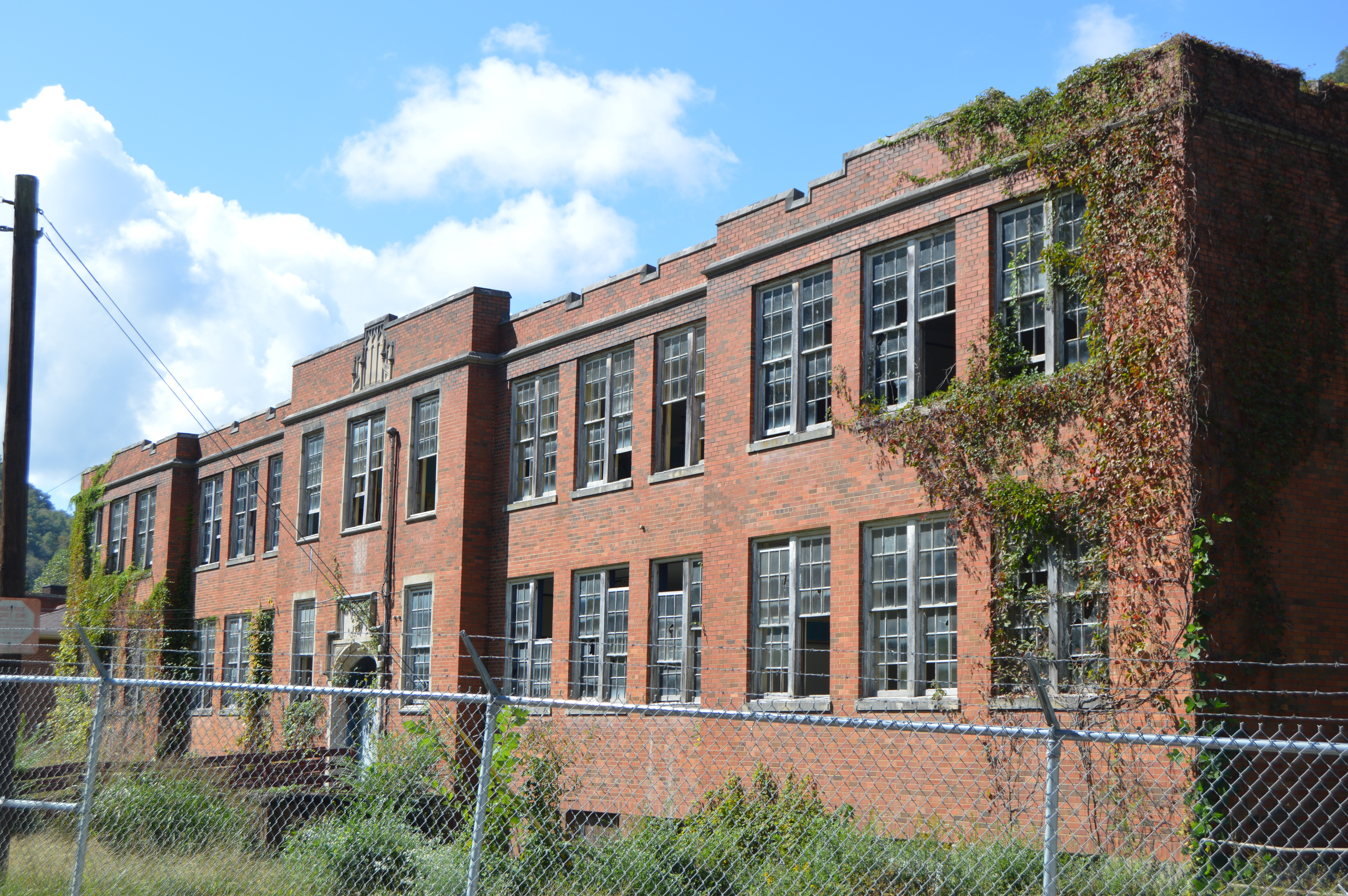 Front of the former Elkhorn City High School, located at 551 Russell Street (Kentucky Route 197) in Elkhorn City, Kentucky, United States. Built in 1938 and abandoned in 2002, it is listed on the National Register of Historic Places along with two other buildings in the school complex.